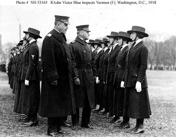 RADM Victor Blue inspects Yeomen(F) in Washington, D.C. 1918